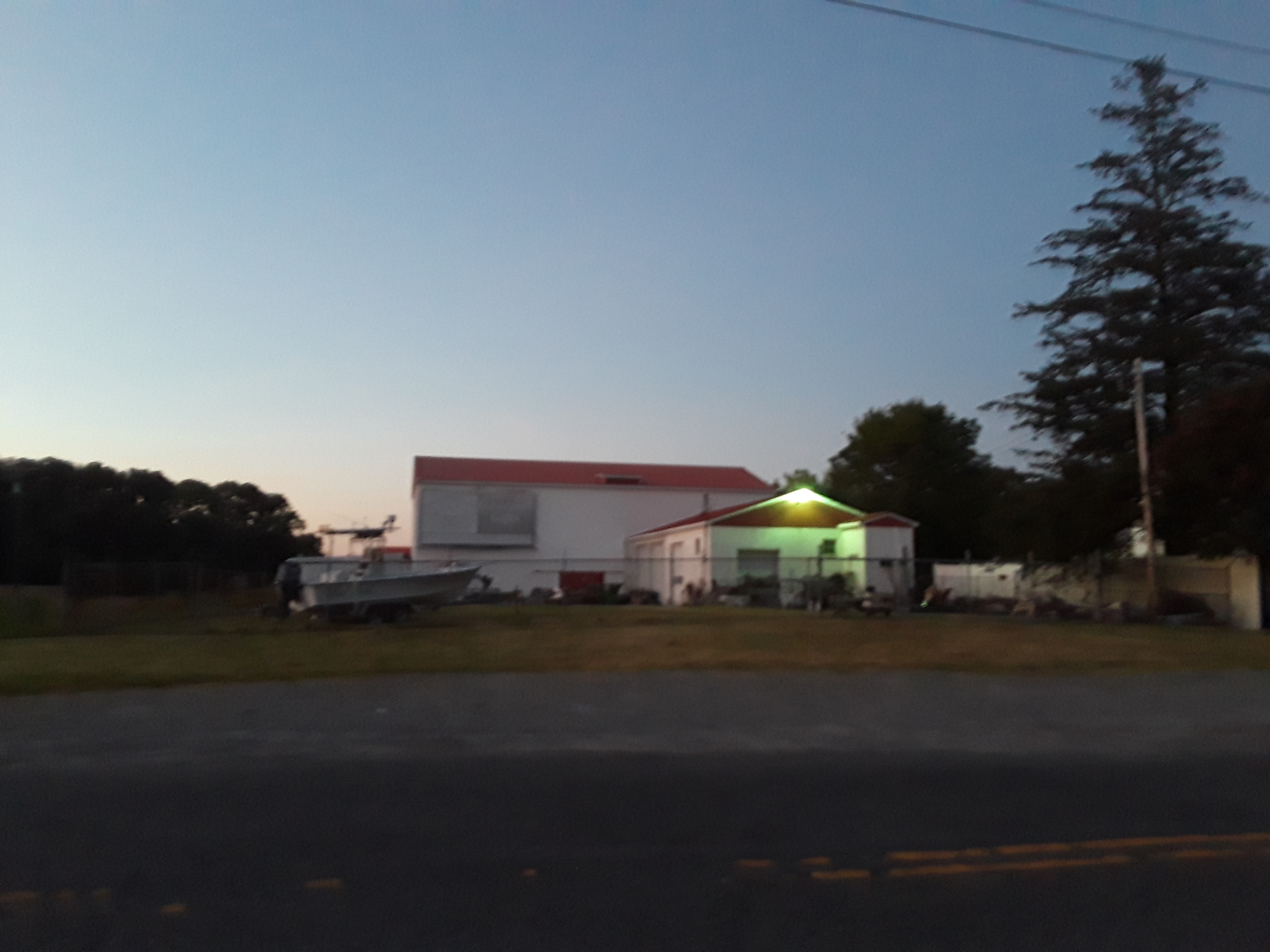 Taken on a visit to the Eastern Shore of Virginia, July 2018